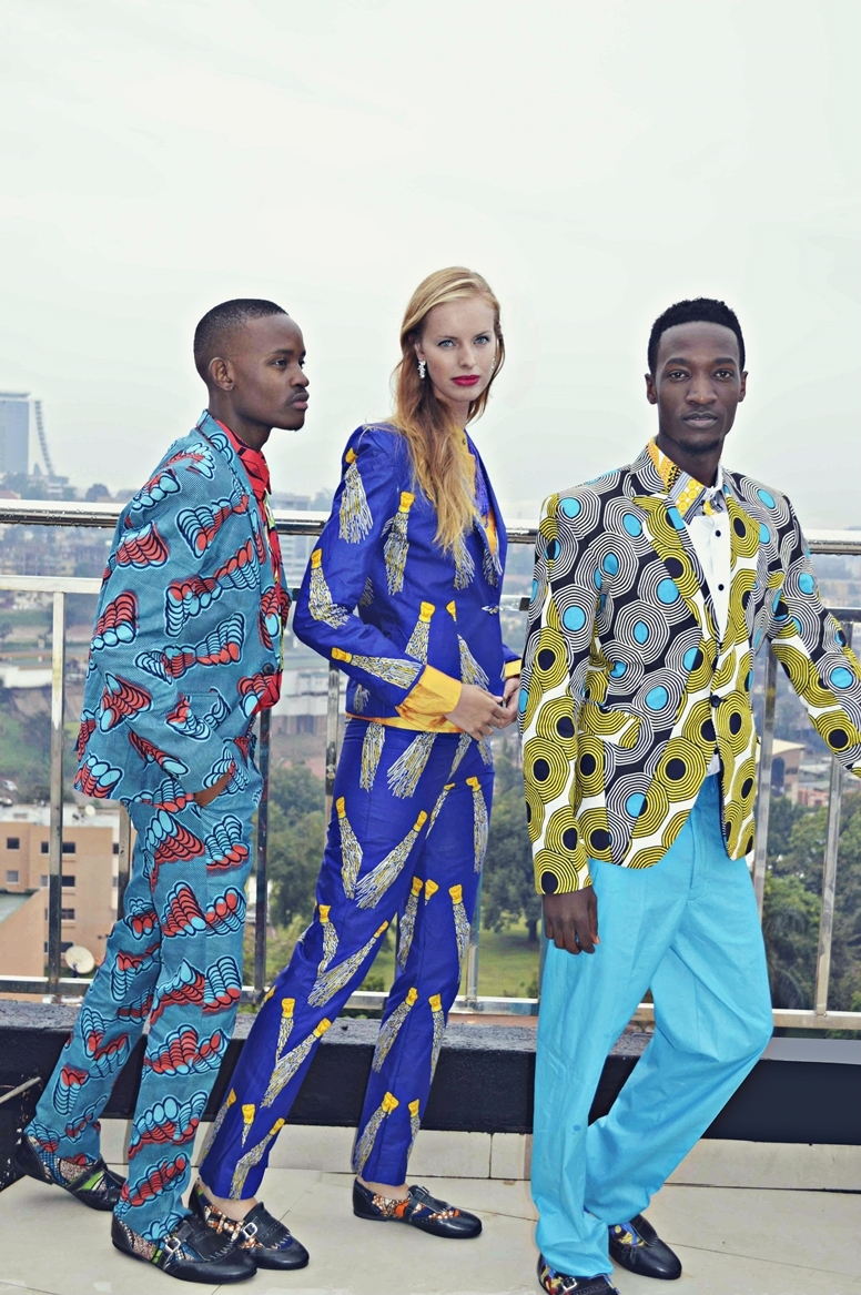 Eguana Kampala s/s 15 lookbook male models ISOM This is an image of Cultural Fashion or Adornment from Uganda